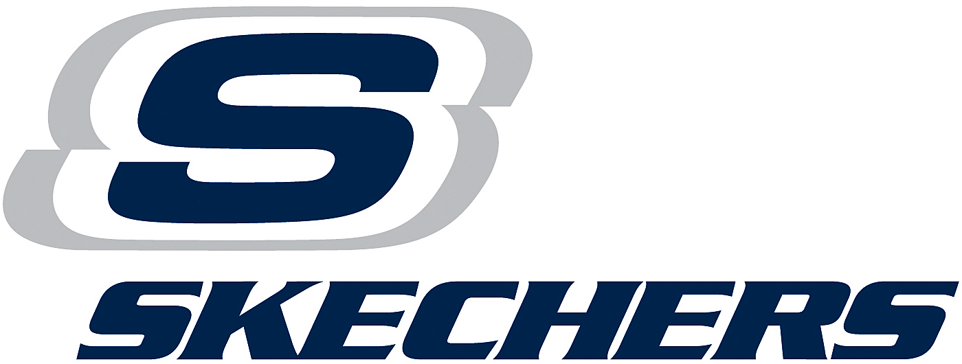 SKECHERS logo